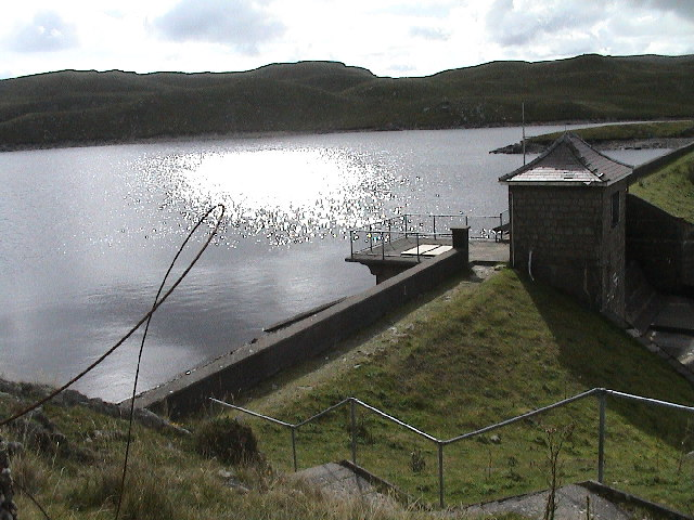 Llyn Teifi. The dam at the end of this large reservoir. Sundew plants grow along the side of the track round the pool.